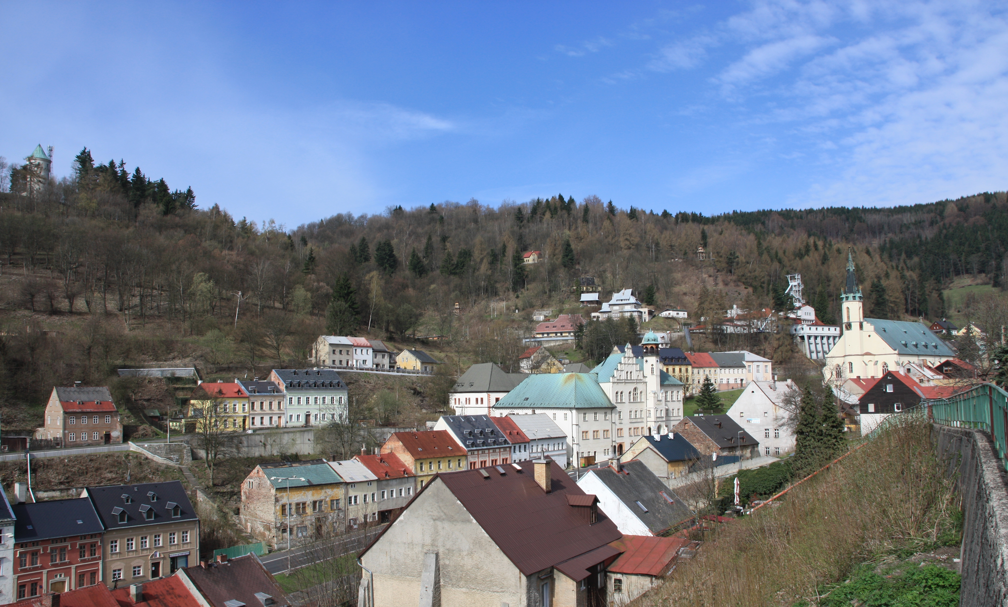 View over Jáchymov